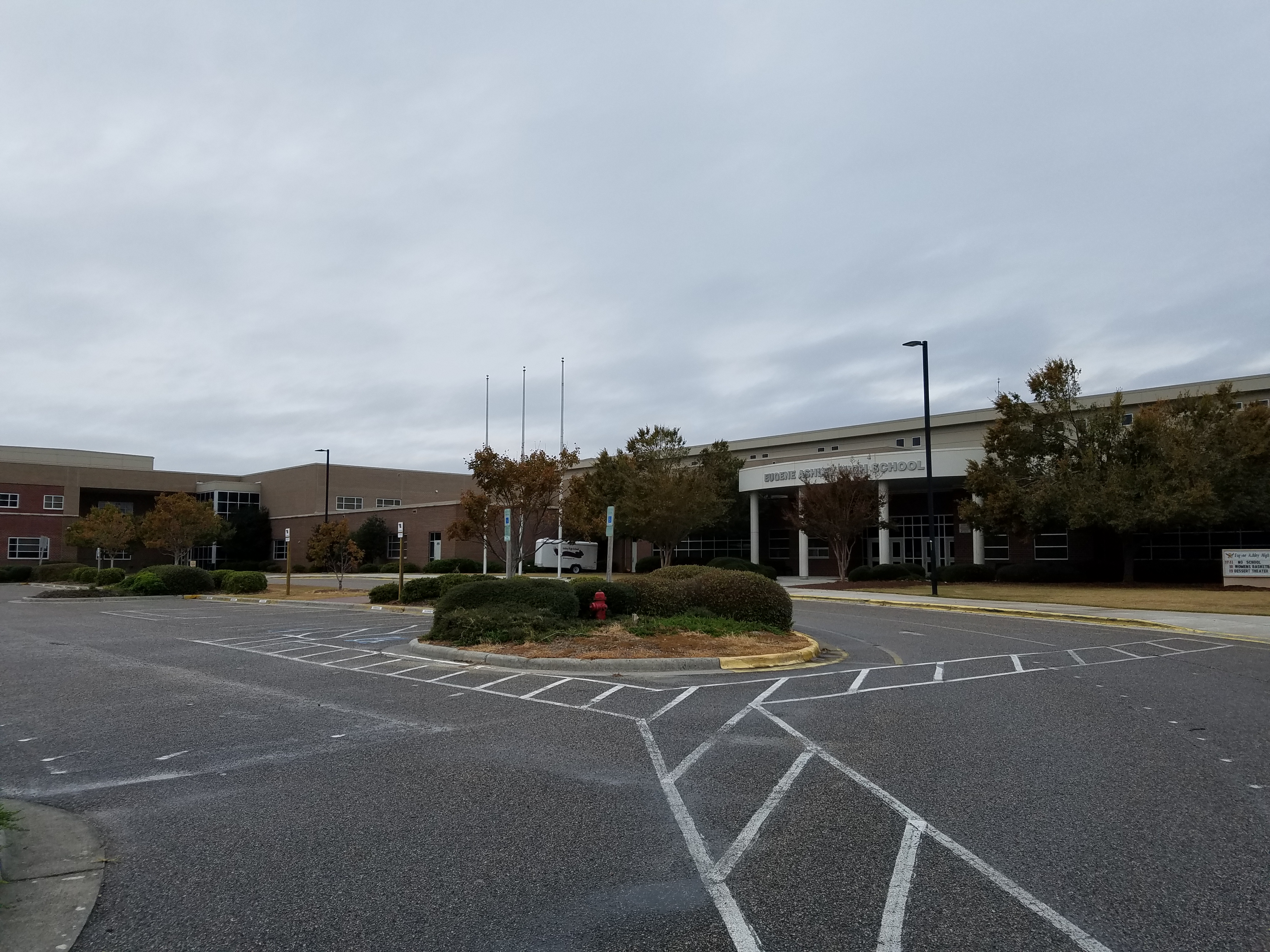 Eugene Ashley High School in New Hanover County, North Carolina